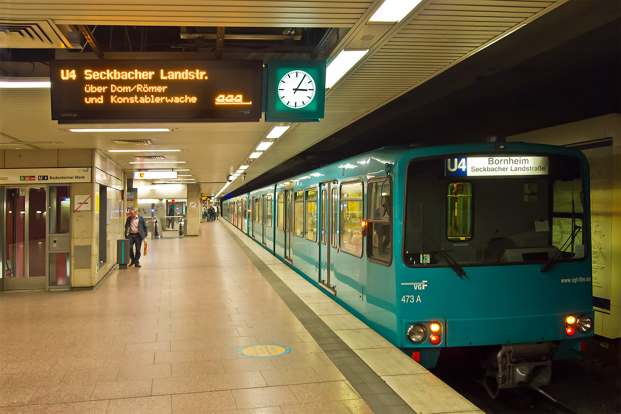 The U-Bahn-train type U3 at the station Hauptbahnhof (Main station) in Frankfurt am Main, linie U4 to Frankfurt-Bornheim, Germany